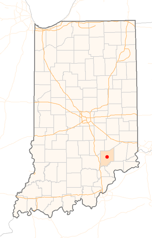 Red Dot map of Indiana, showing the location of North_Vernon